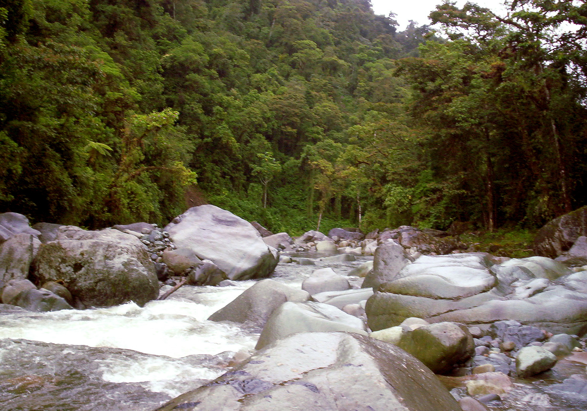 This is a picture of Orosi River taken by me on August, 2005 in Tapanti National Park, Costa Rica.